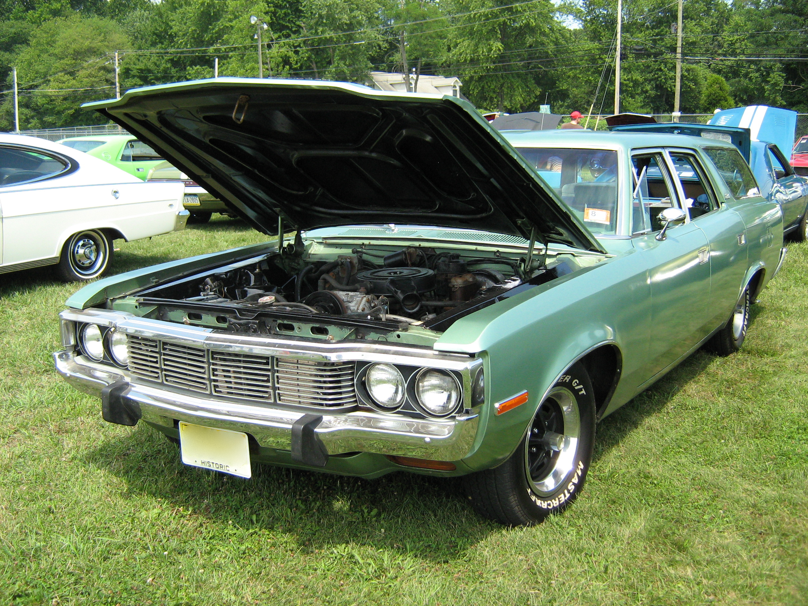 1973 AMC Matador (base model), an "intermediate-sized" station wagon made by American Motors Corporation (AMC). Left front view. Picture taken at an AMC show held at the Cecil County Dragstrip in Maryland.